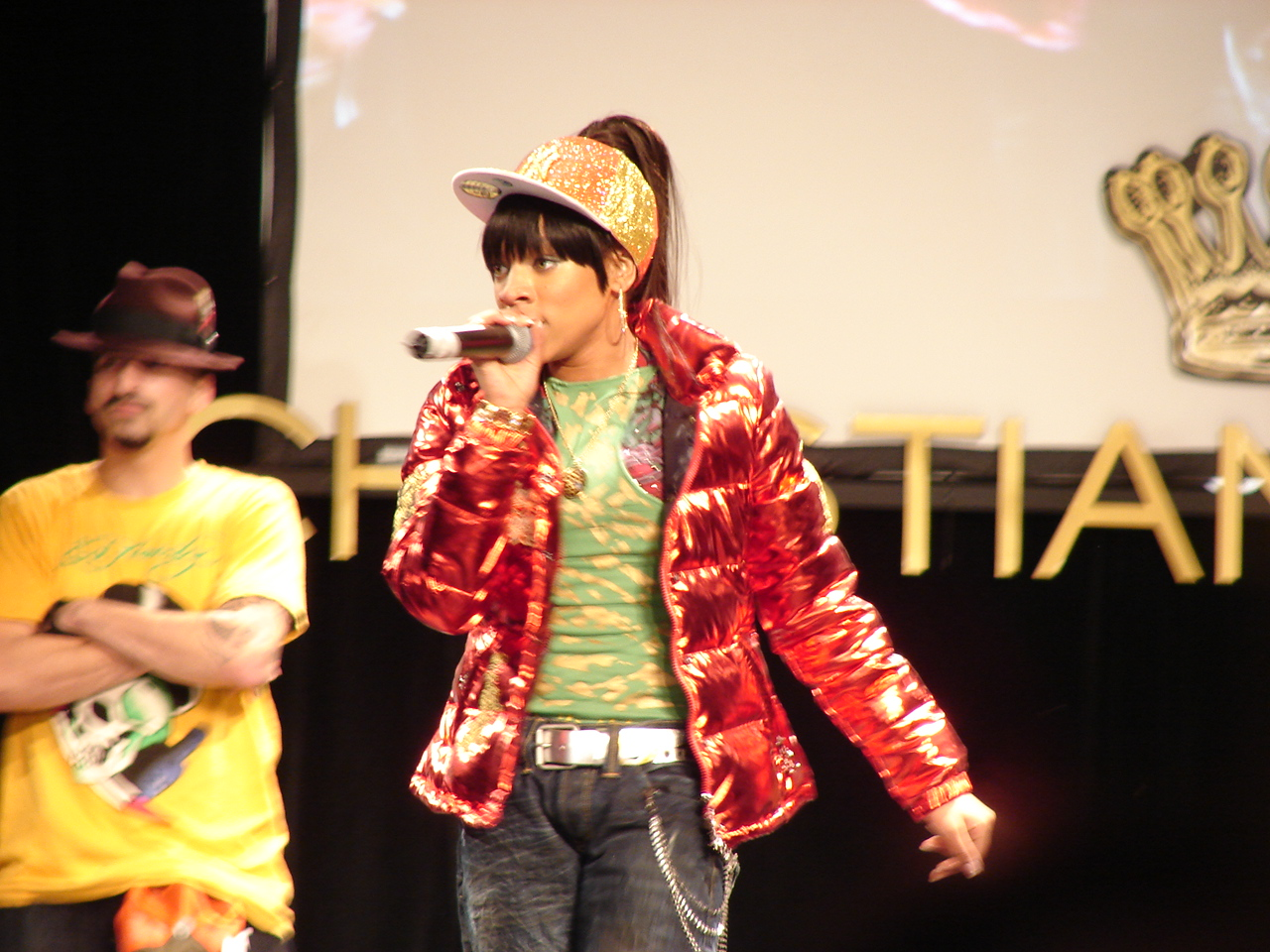 Lil Mama in Ed Hardy Fashion Show 2008.